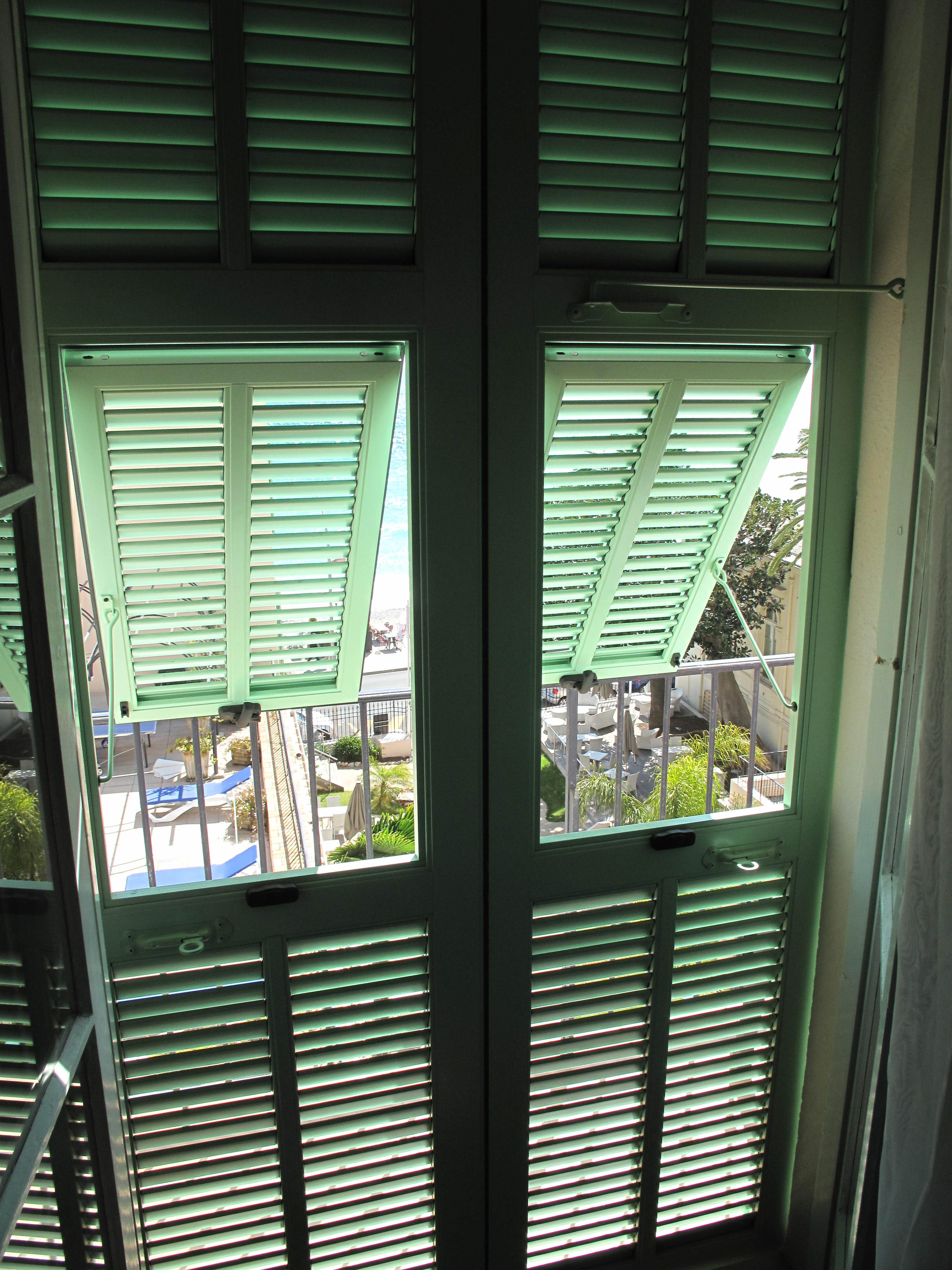 Interior view of provencal shutters (louvers). Hotel Balmoral in Menton (Alpes-Maritimes, France).